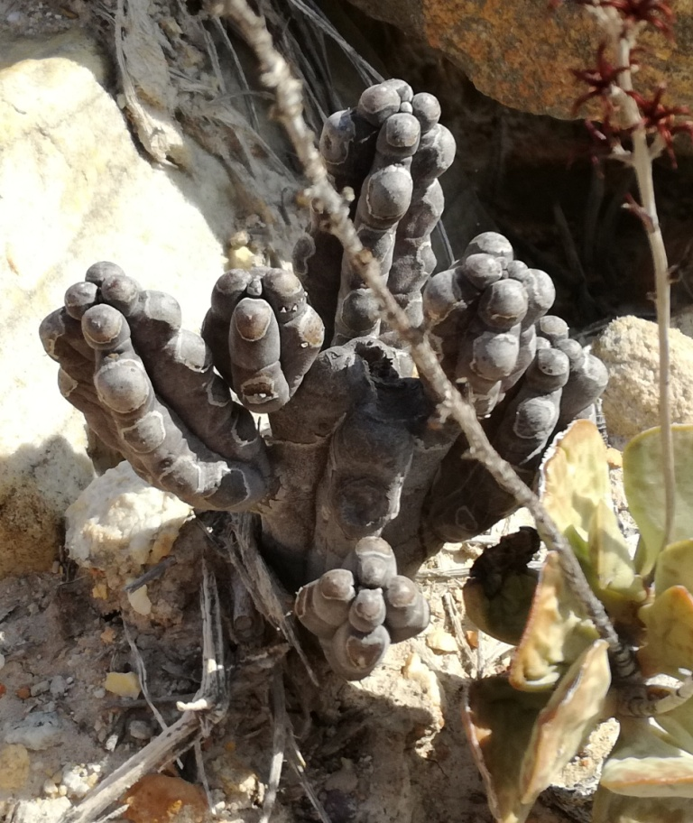 Quaqua ramosa - E Barrydale